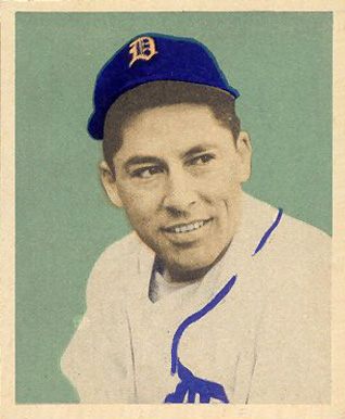 1949 Bowman baseball card of Eddie Lake of the Detroit Tigers #107. PD-not-renewed.